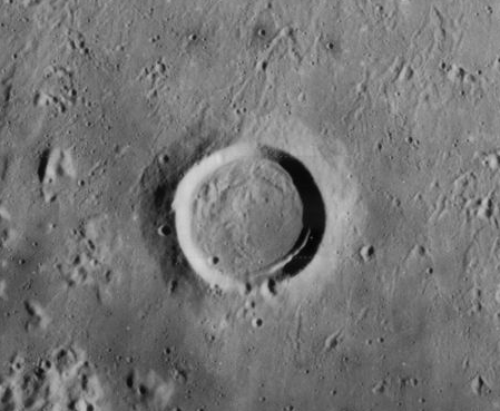 Image of lunar crater Hohmann with surroundings, taken by Lunar Orbiter 4. The preview image 4195_h2.jpg was cropped to focus on the crater.